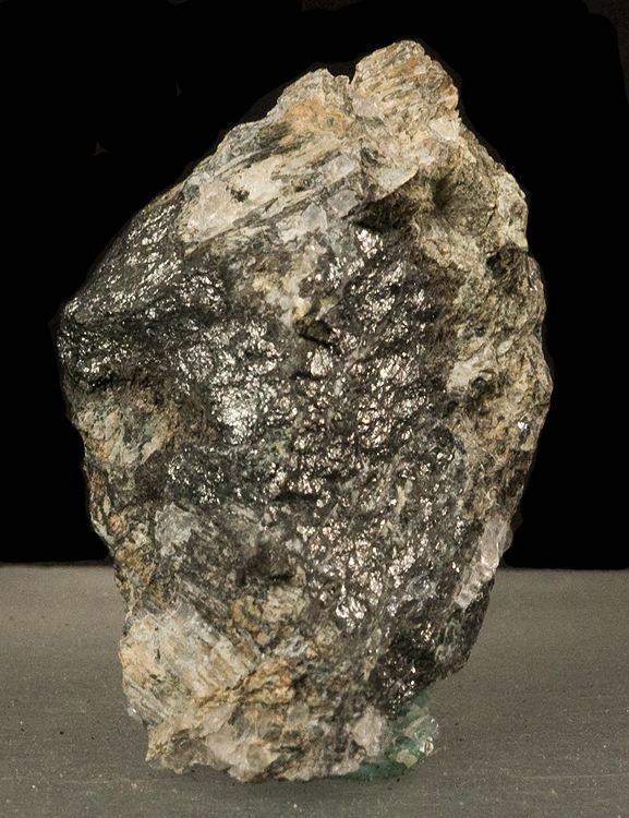 Aikinite Locality: Cucomungo Spring, Tule Canyon District, Esmeralda County, Nevada, USA (Locality at ) Size: 2.9 x 1.8 x 1.1 cm. Aikinite is a relatively uncommon lead, copper, bismuth sulfosalt. This representative toenail is richly covered with metallic-bright, lead-gray, layered sheets of aikinite microcrystals and is from the much less common for the species Nevada locality of Cucomungo Spring in Esmeralda County. Ex. Carl Davis Collection.